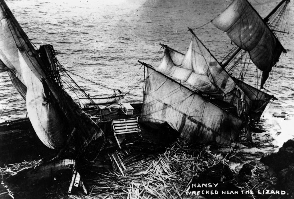 Hansy (ship) The 'Hansy' wrecked off the Cornish coast near the Lizard on 3 November, 1911. (Description supplied with photograph).